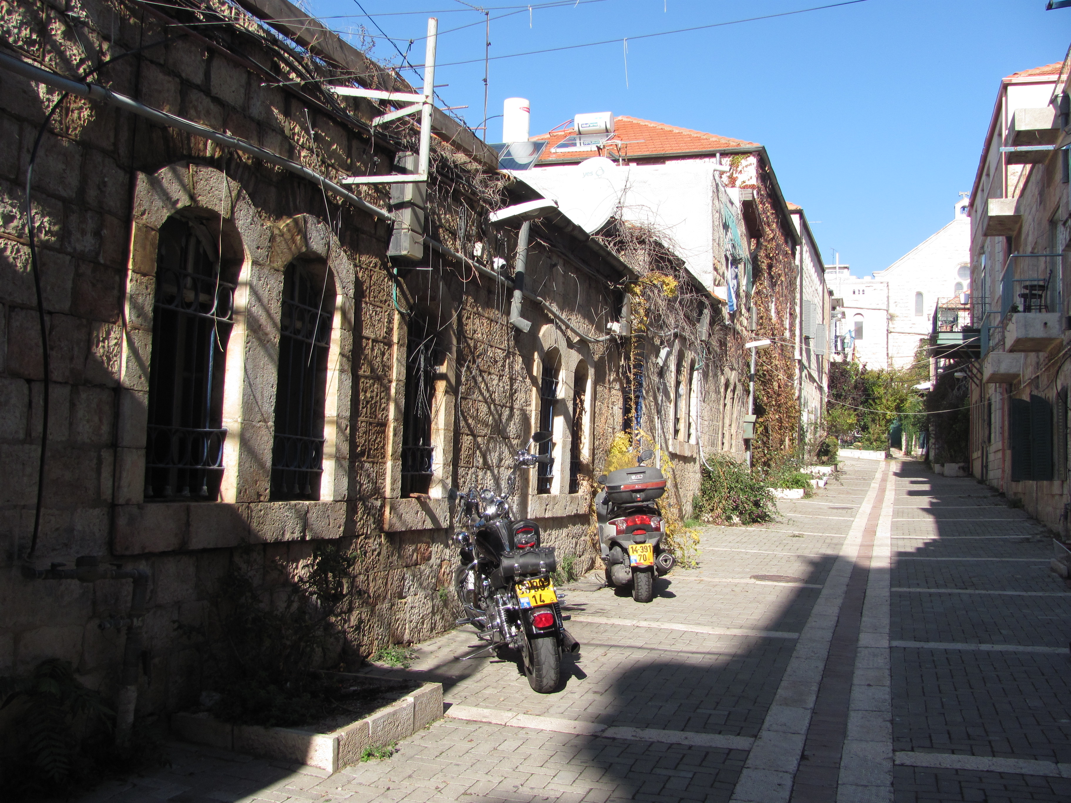 View of Ezrat Yisrael Street, Jerusalem, Israel.